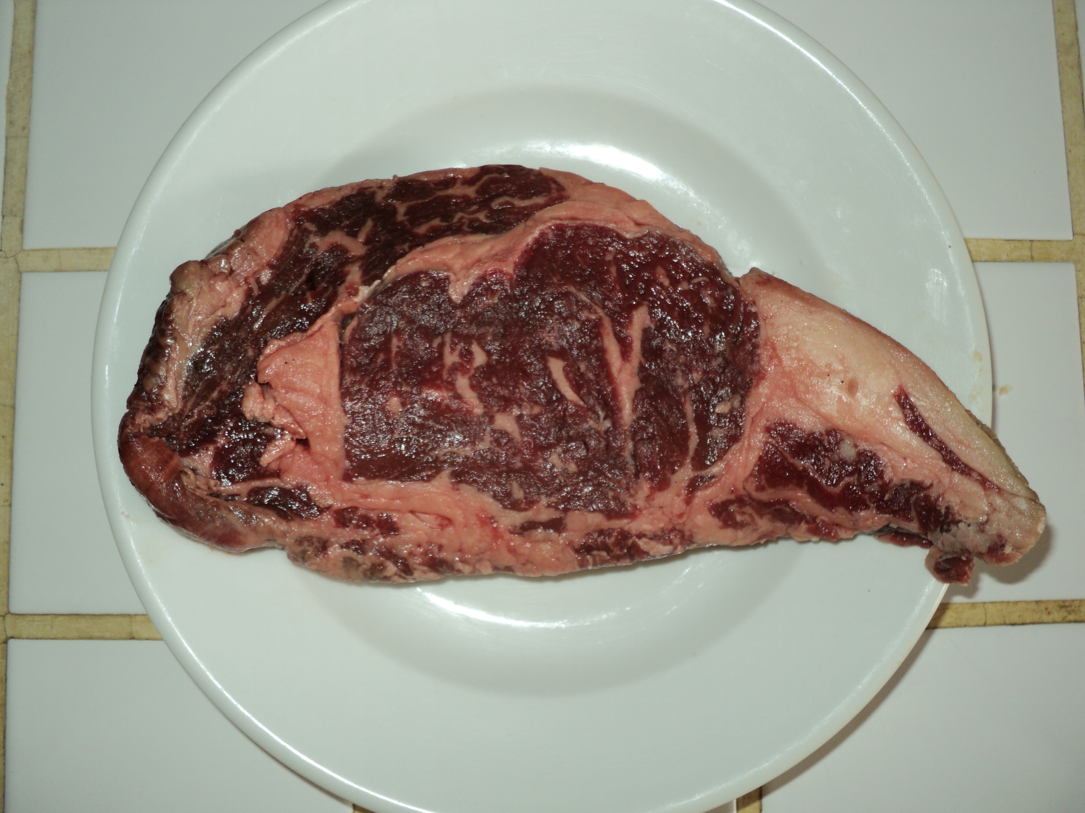 A Swiss Simmental cattle breed entrecôte steak (about 2 cm thick).